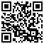 Wiki QR Code